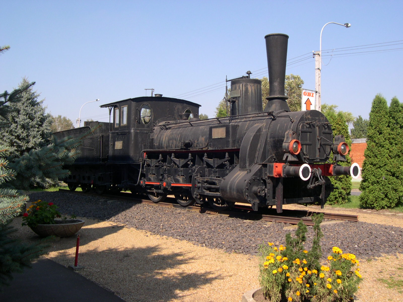 The MAV No.: 326.274 locomotive Békéscsaba MÁV vehicle repair shop before